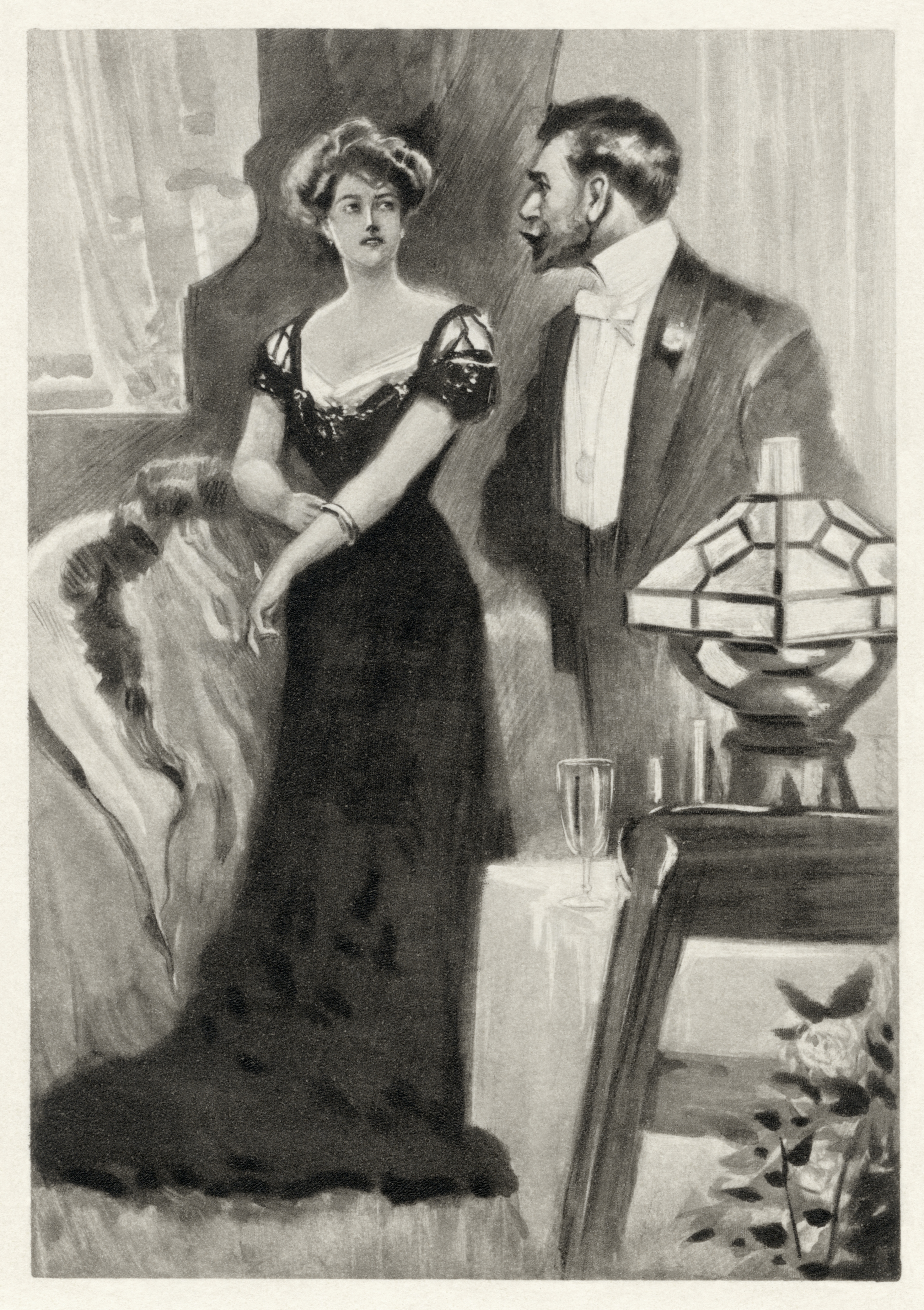 "You brute! You coward!" from an anonymous artist's illustrations to Oscar Wilde's An Ideal Husband.